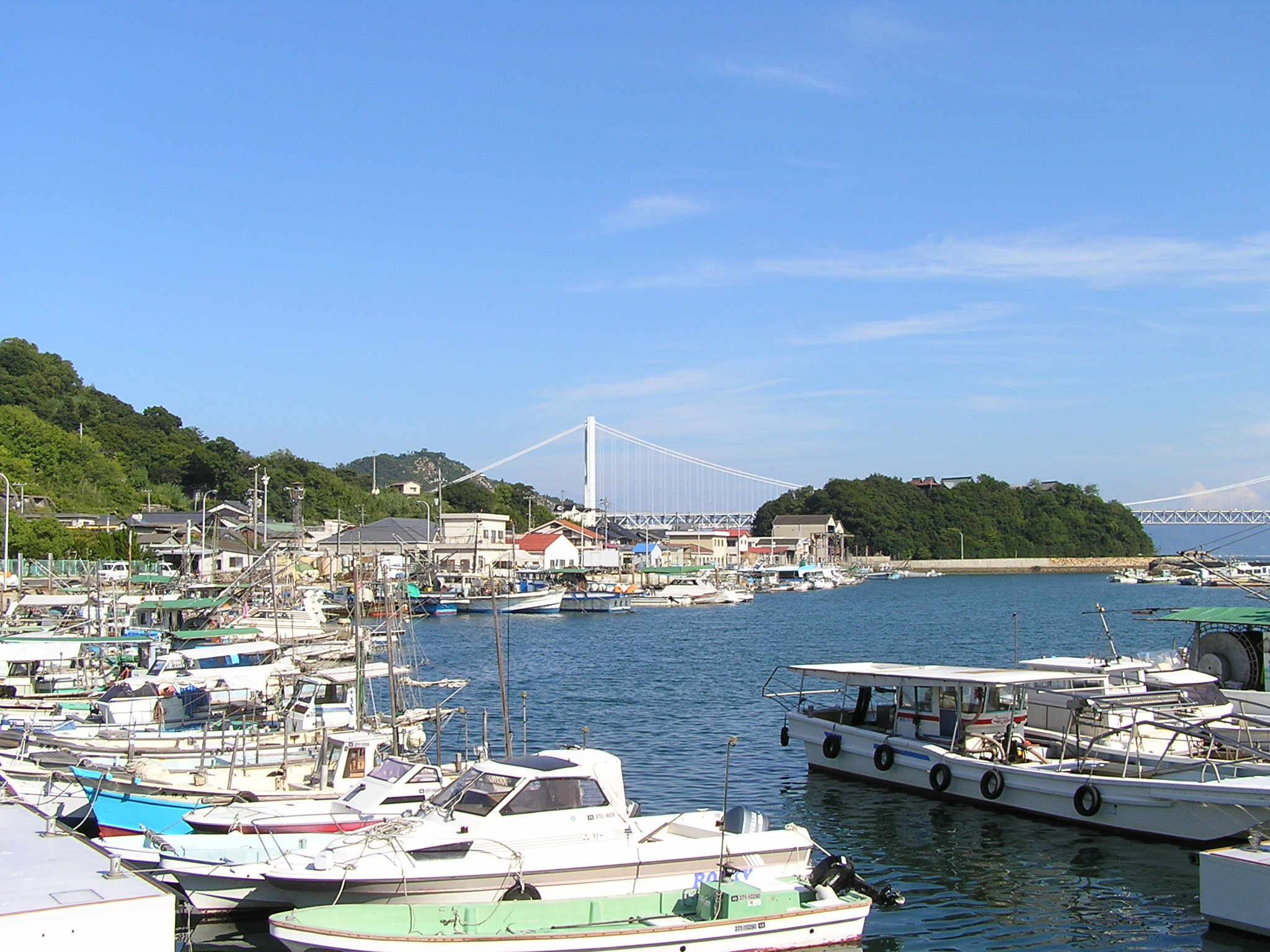 Shimotui Port and Shimotui Seto Bridge